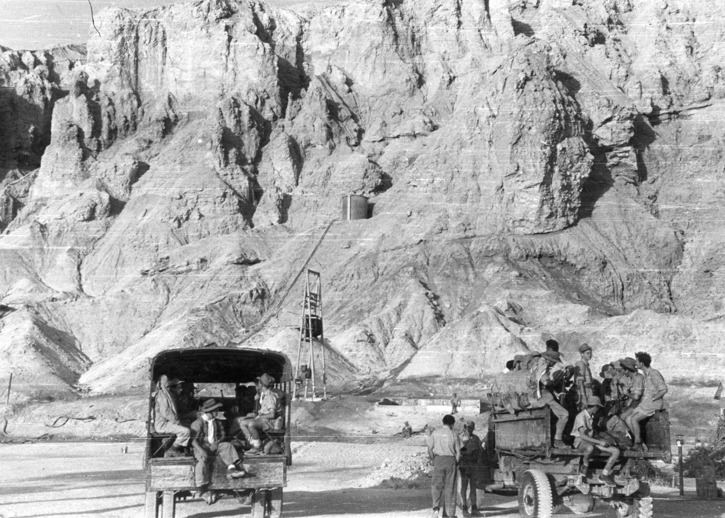 The Palmach, Israel Defense Forces